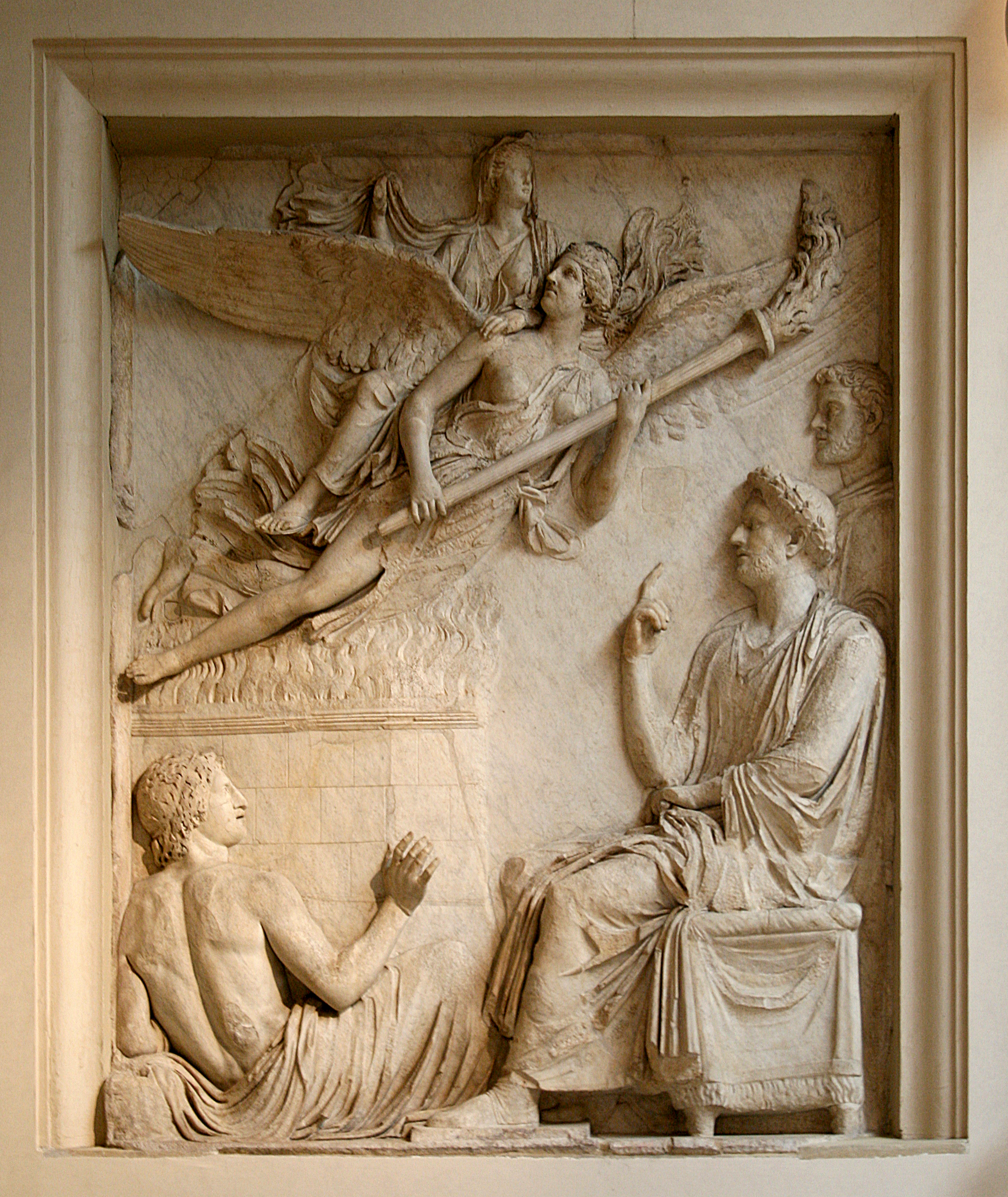 Relief from the Arc de Portugal representing the apotheosis of Sabina, Marble, Roman artwork.